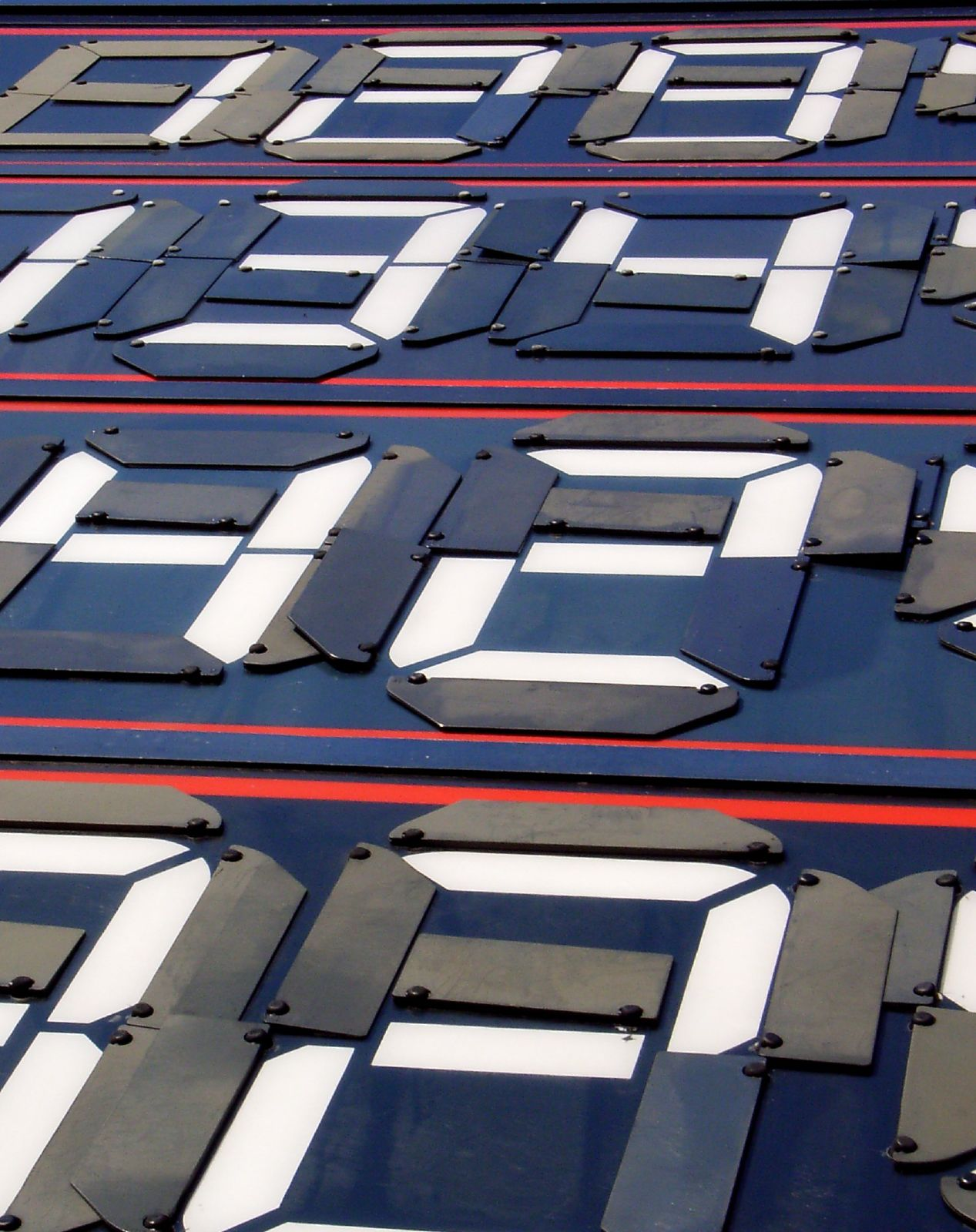 Fuel prices displayed on a seven segment display board commonly found at petrol stations.